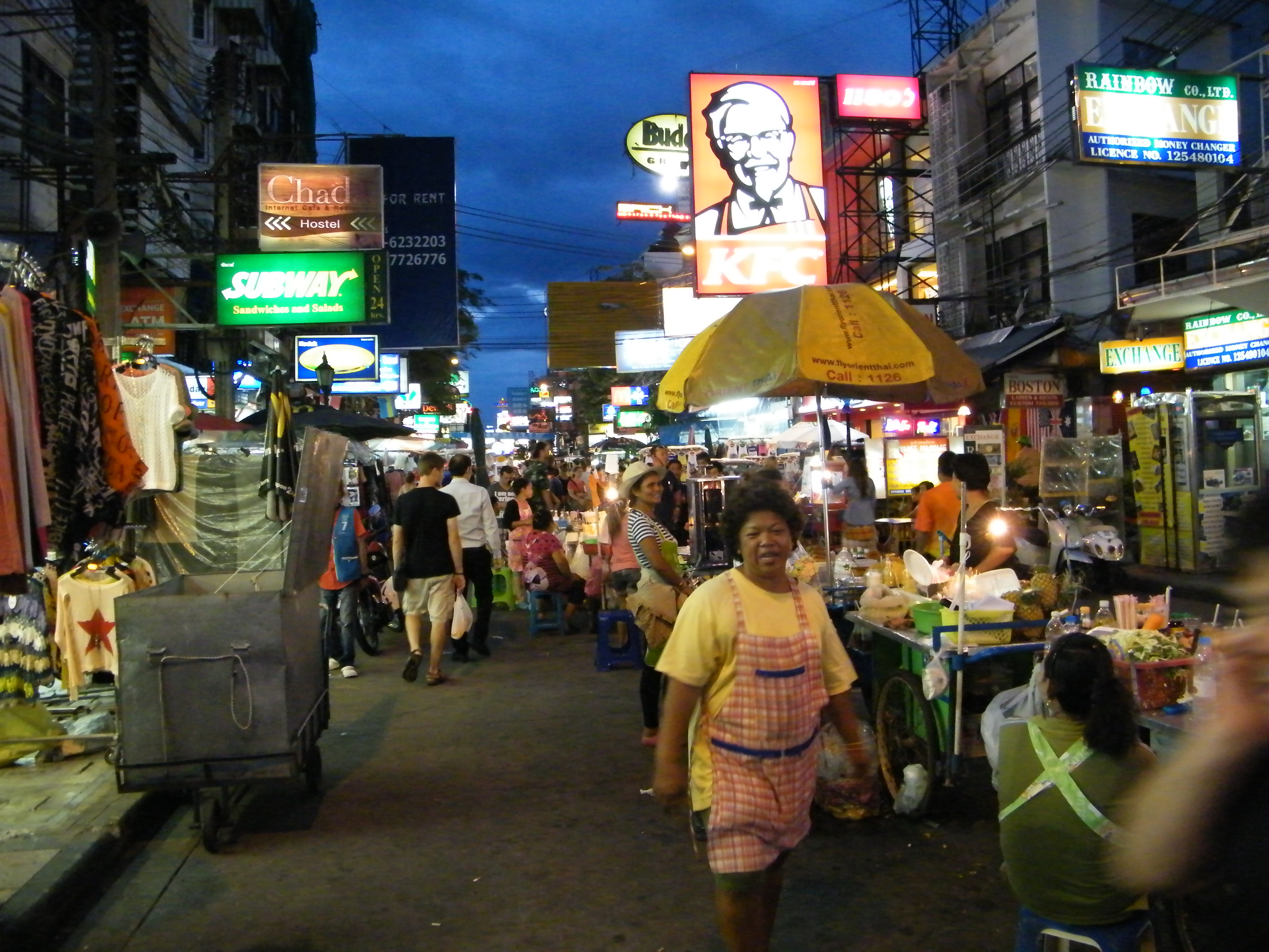 View of the Khaosan Road at night